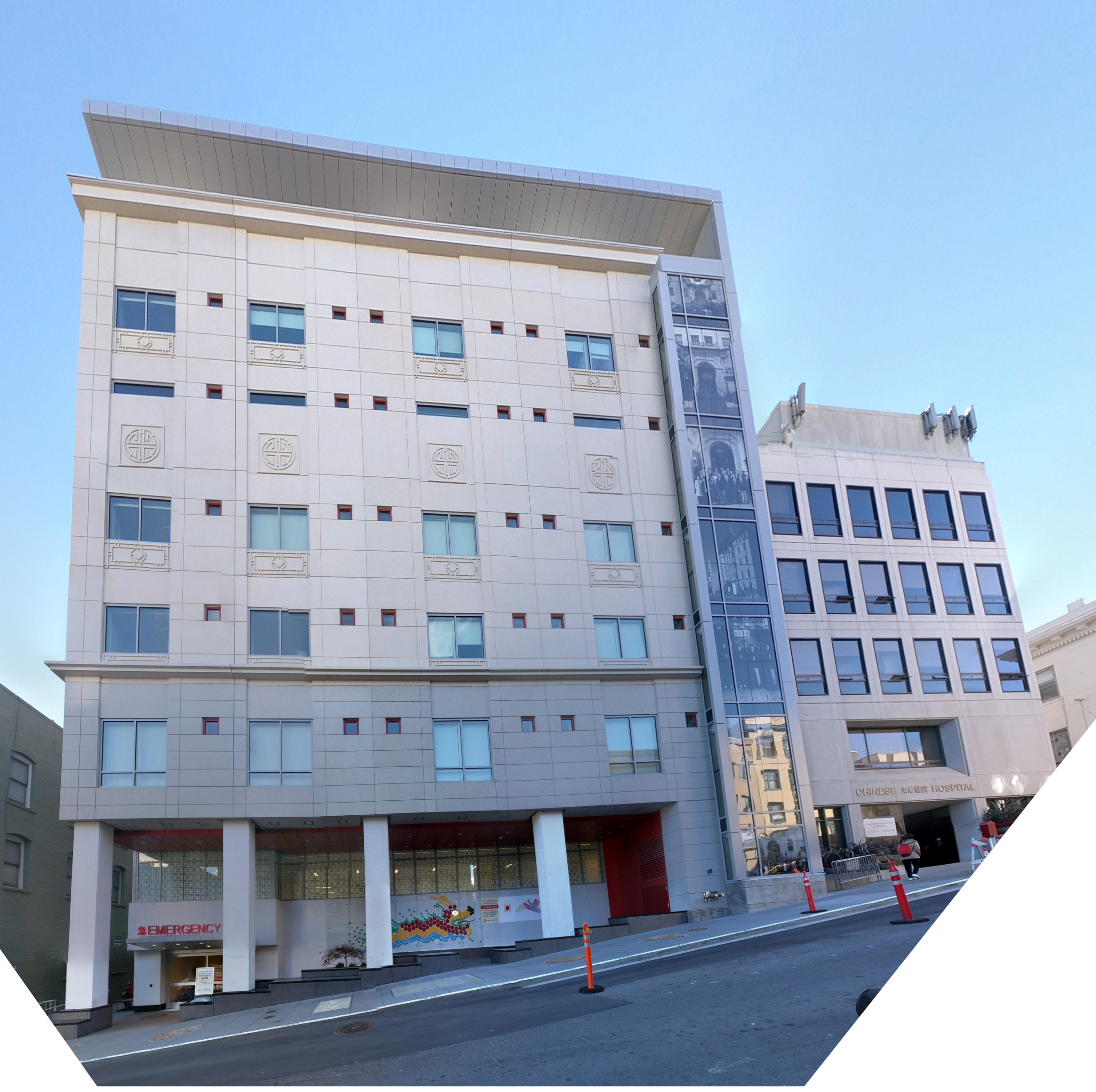 Chinese Hospital, San Francisco. Perspective corrected (somewhat) from stitched panorama.